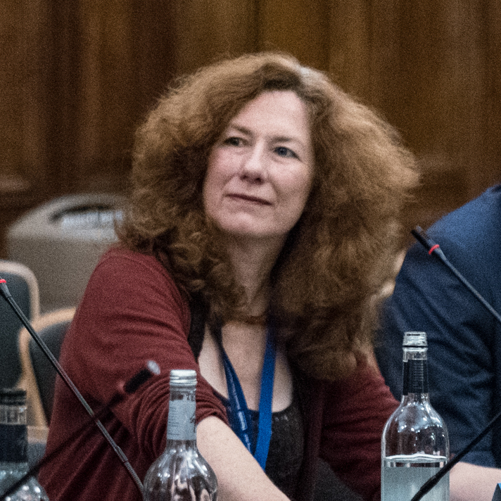 Angie Hobbs at the Horasis China Meeting 2017, Sheffield, UK, 5-6 Nov.